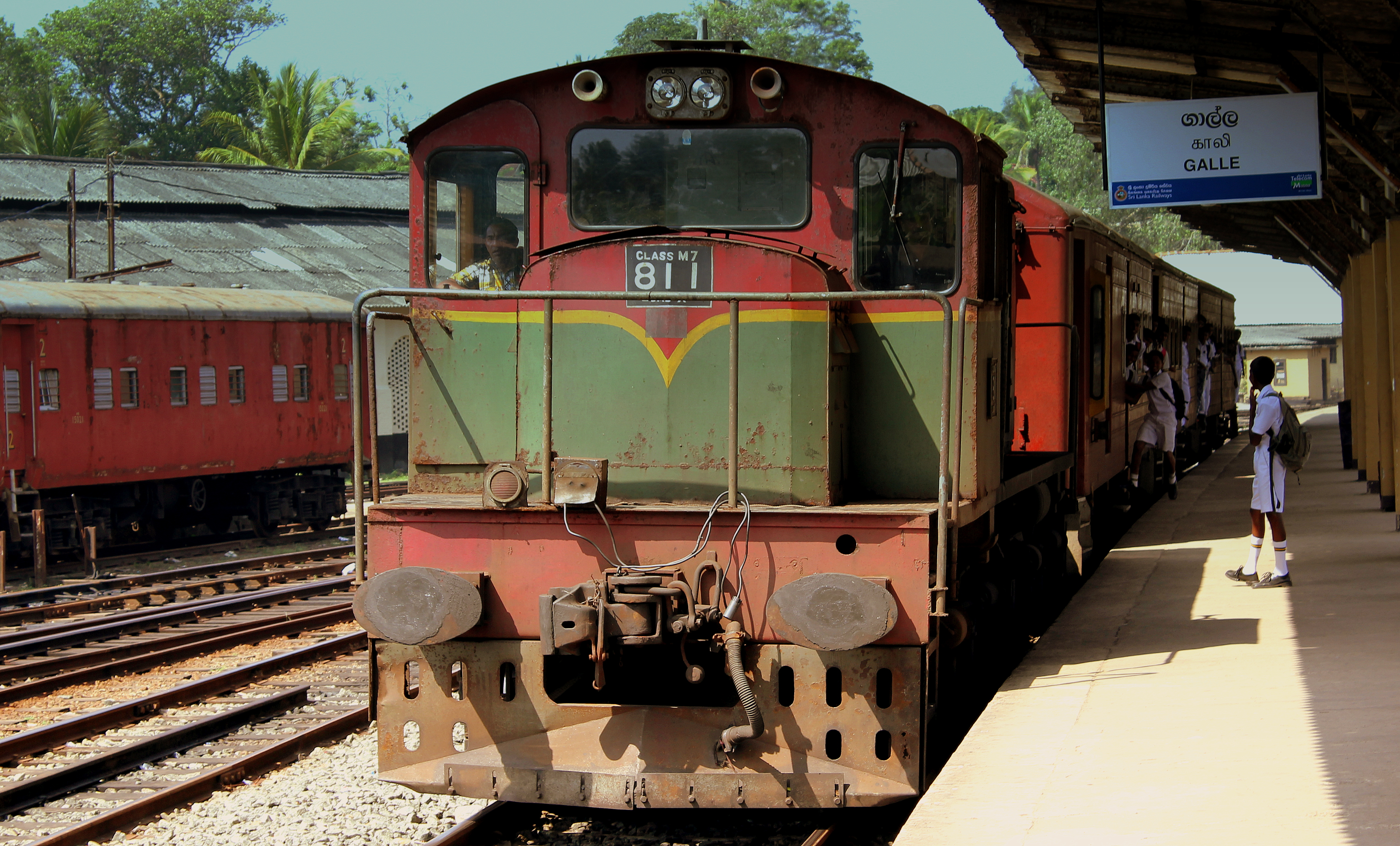 SRI LANKAN RAILWAYS CLASS M7 LOCO HAULED TRAIN AT GALLE STATION SRI LANKA JAN 2013